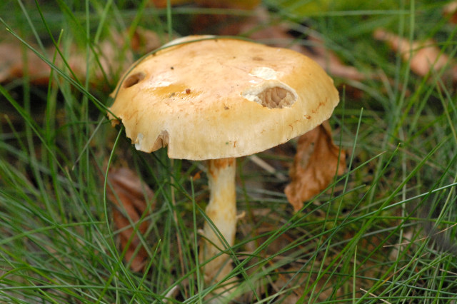 Cortinarius vibratilis from Commanster, Belgium. If you think this is a different taxon, please contact James Lindsey.